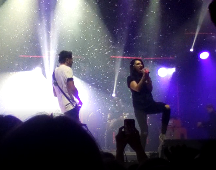 Lousine Gevorkyan during Louna's concert in Moscow 17.11.2018